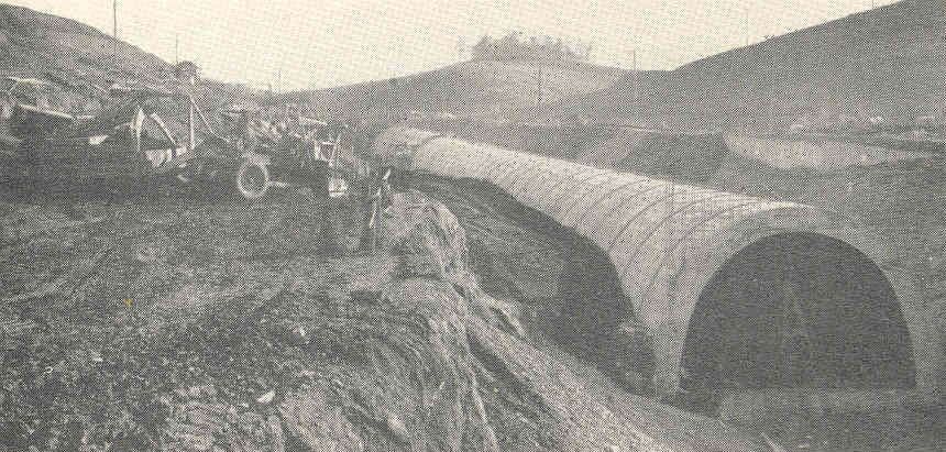 The construction of Chatuge Dam's concrete culvert in the early 1940s. Chatuge Dam, built by the Tennessee Valley Authority, impounds the upper Hiwassee River in Clay County, North Carolina, USA.